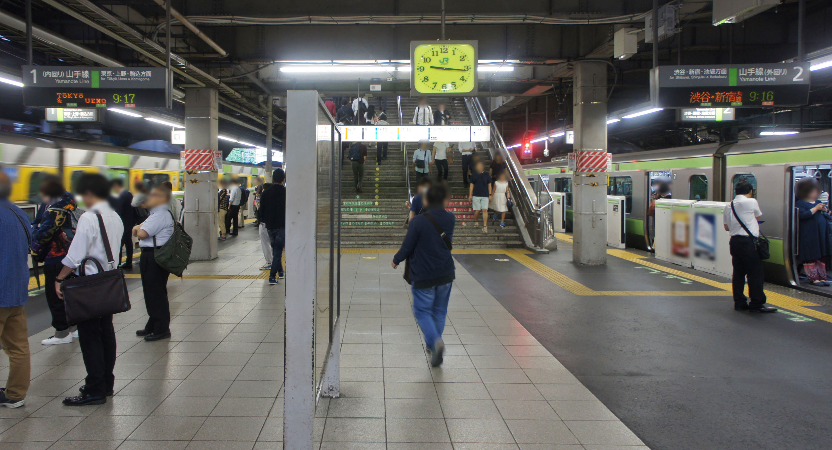 Platform 1・2 (Yamanote Line) of JR Shinagawa Station Sony NEX-3 + E 18-55mm F3.5-5.6 OSS